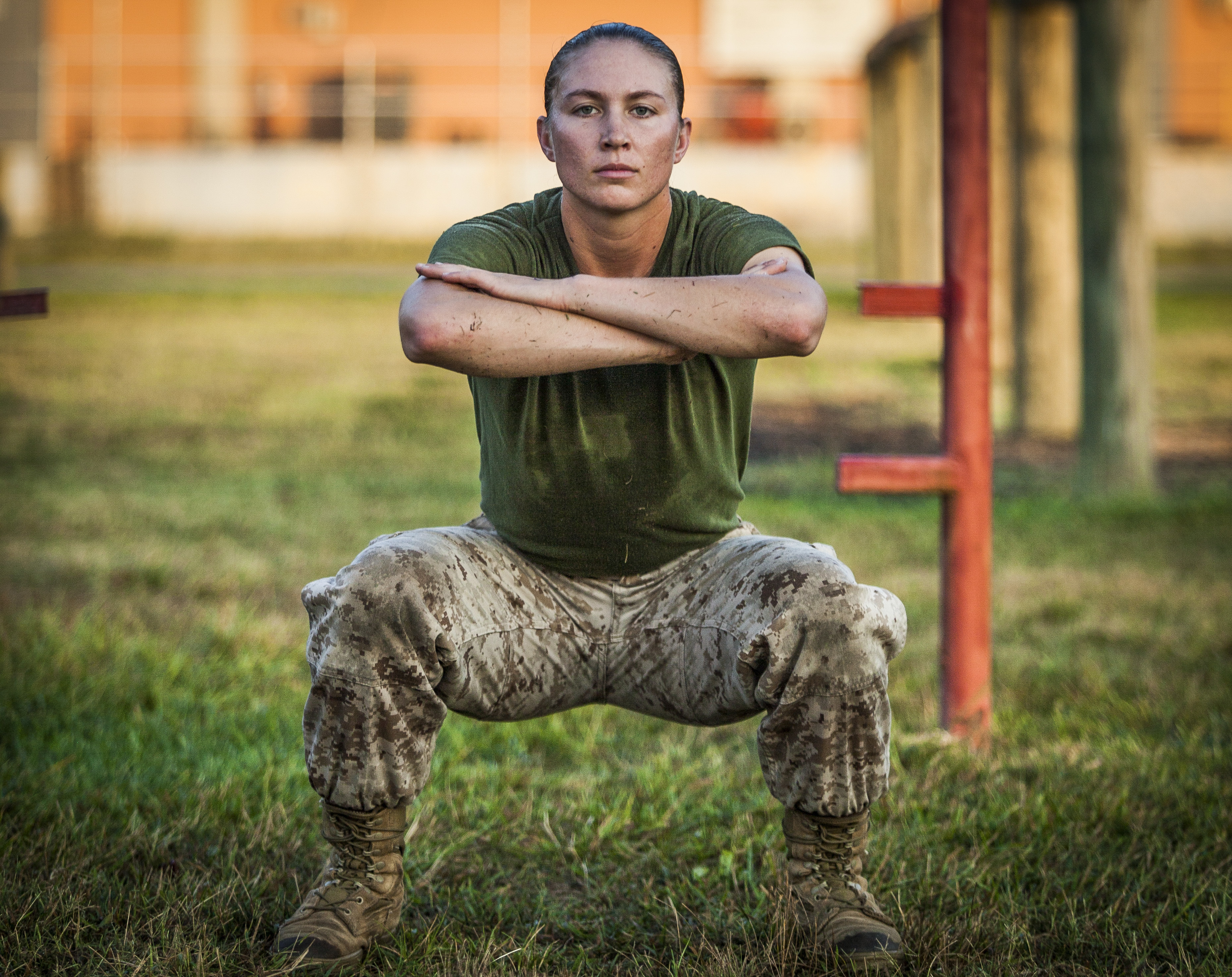 An officer candidate executes a squat during a physical training event at Officer Candidates School aboard Marine Corps Base Quantico, Virginia, July 30, 2019. The mission of Officer Candidates School is to educate and train officer candidates in Marine Corps knowledge and skills within a controlled and challenging environment in order to evaluate and screen individuals for the leadership, moral and physical qualities required for commissioning as a Marine Officer. (U.S. Marine Corps photo by Lance Cpl. Phuchung Nguyen)